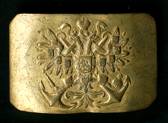 Russian belt buckle WW I (Marines)